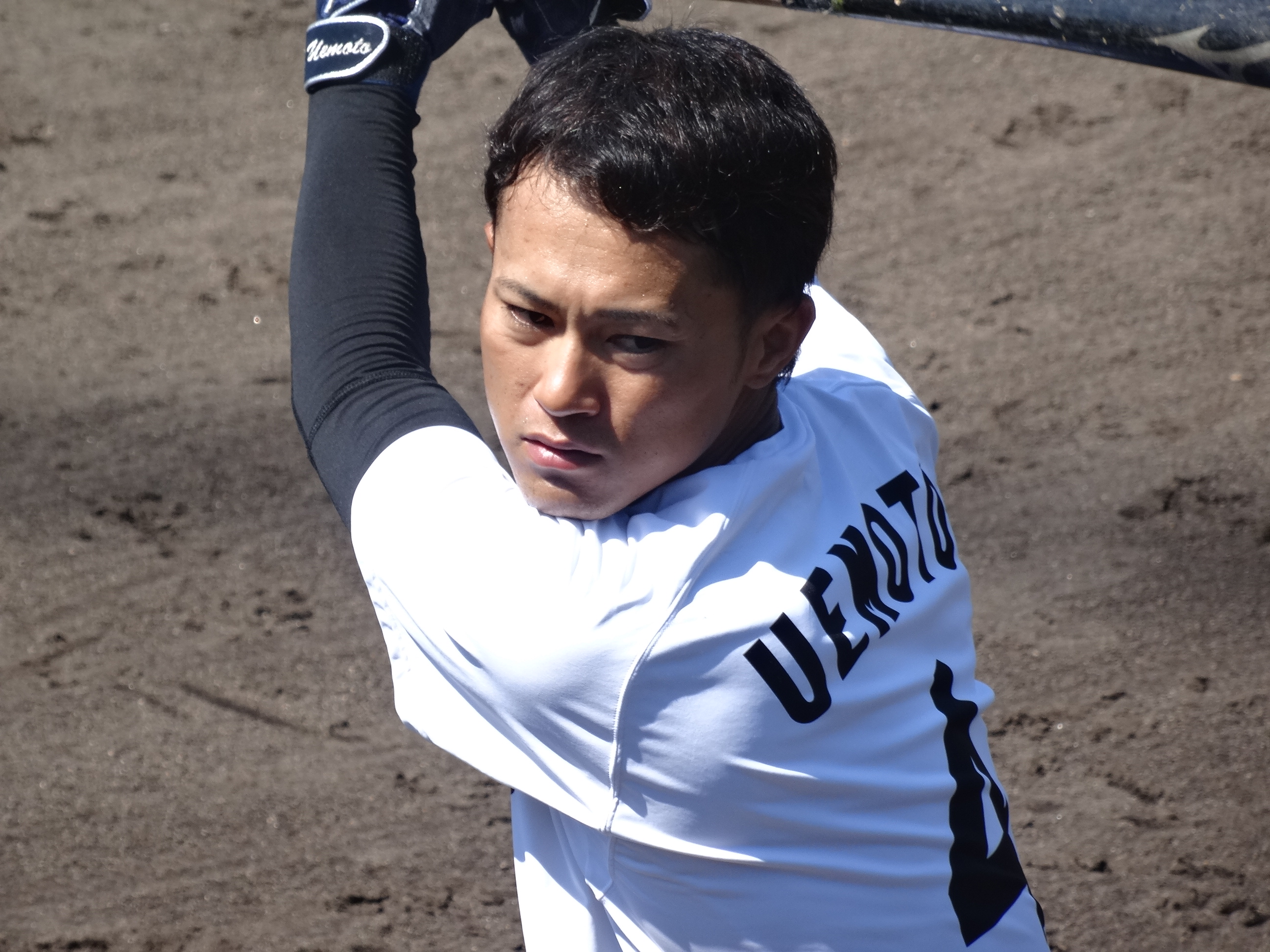 Hiroki Uemoto, infielder of the Hanshin Tigers, at Hanshin Naruohama Baseball Ground